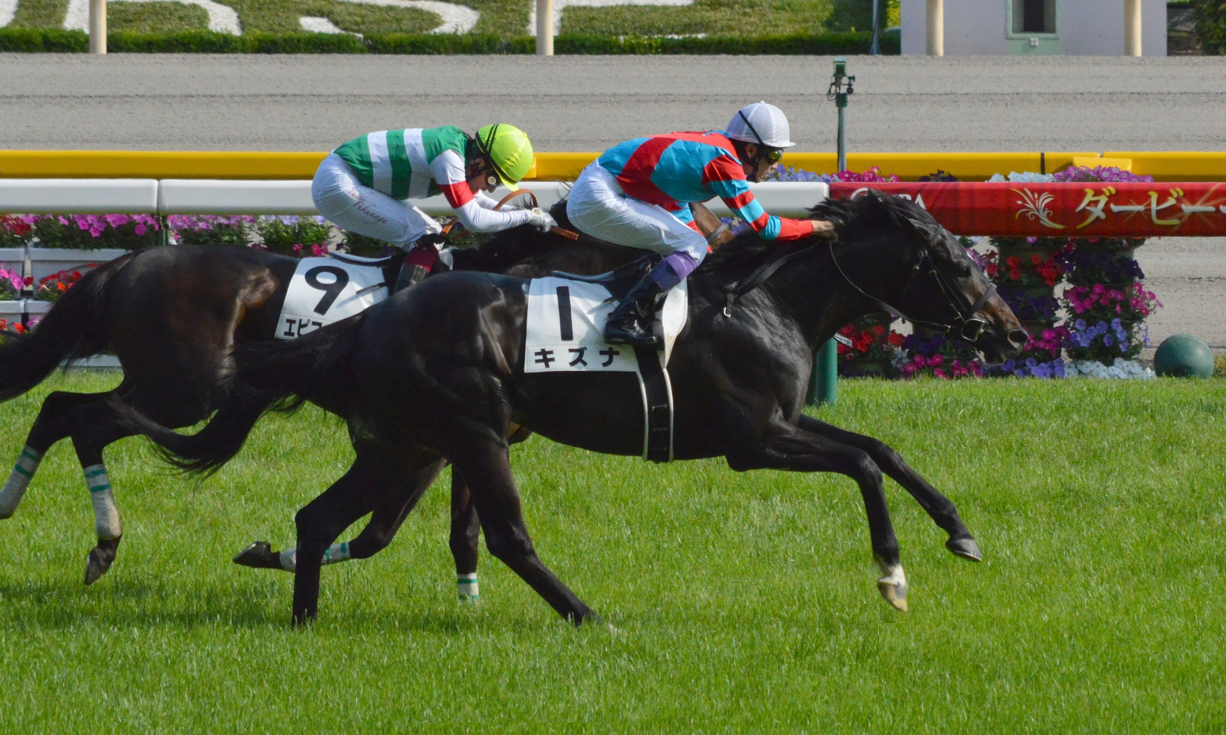 Japanese race horse Kizuna at Tokyo racecourse. Tokyo (JPN) 26 May 2013 Tokyo Yushun (Japanese Derby) (Grade 1) (3yo Colts & Fillies) (Turf) 1m4f Firm RankHorse NameOddsAgeWgtTrainerJockey1stKizuna (JPN)19/10FC39-0Shozo SasakiYutaka Take2ndEpiphaneia (JPN)51/10C39-0Katsuhiko SumiiYuichi Fukunaga3rdApollo Sonic (USA)61/1C39-0Masahiro HoriiMasaki Katsuura4th - 18th/omission